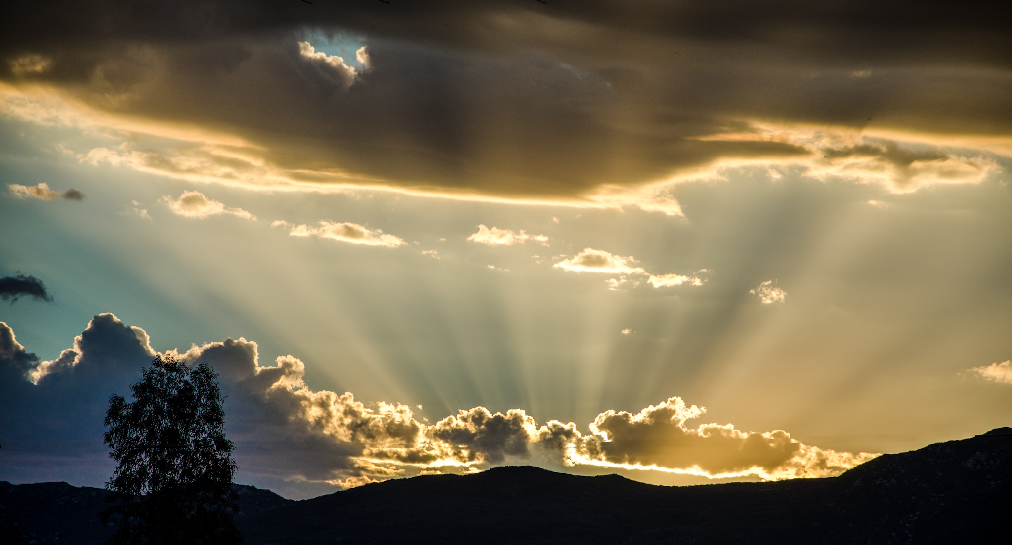 View overlooking the Agua Tibia Wilderness